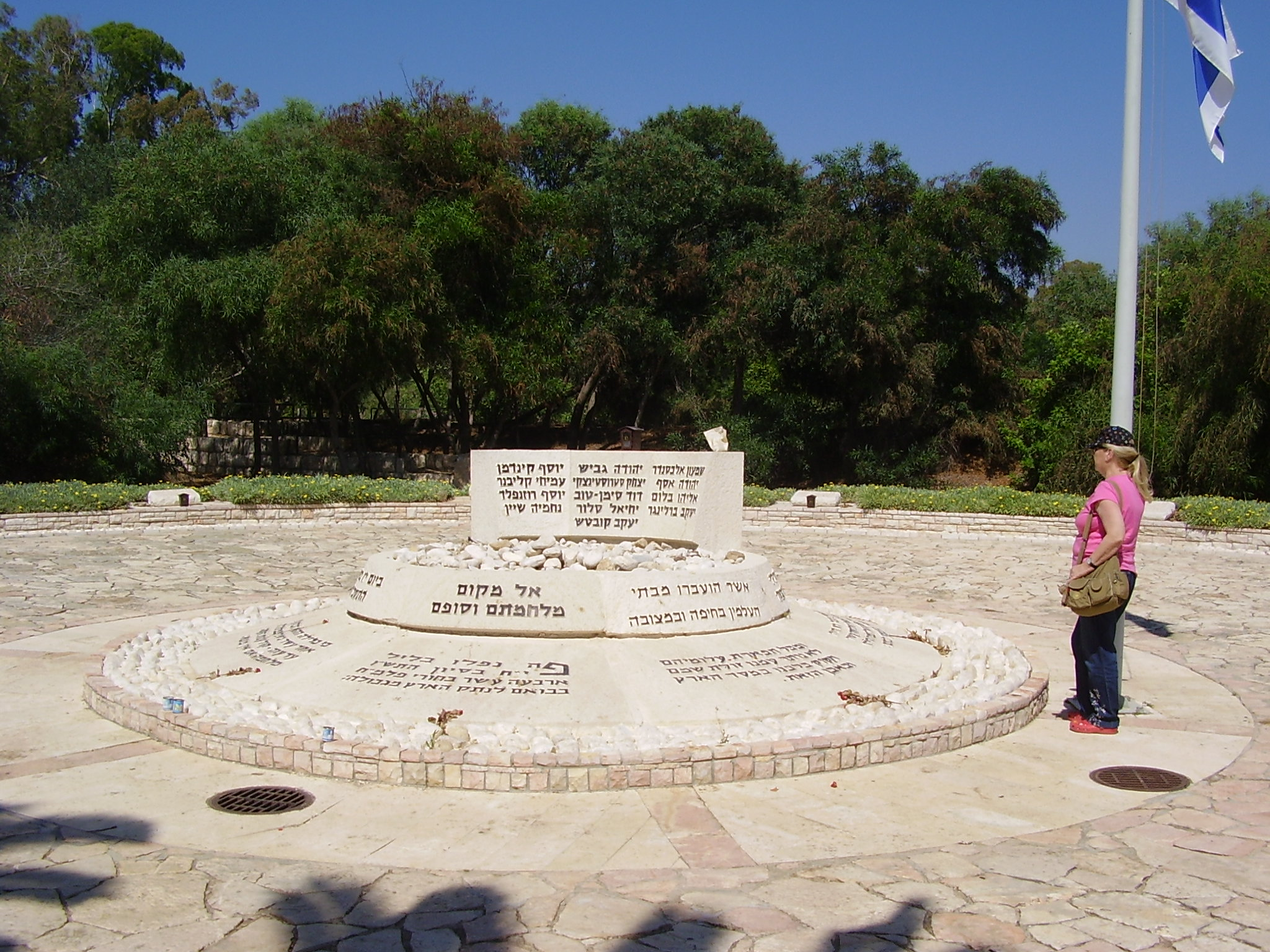 war memorial to palmach fighters who were killed in 16/06/1946 in an attempt to blow up the a-ziv bridge